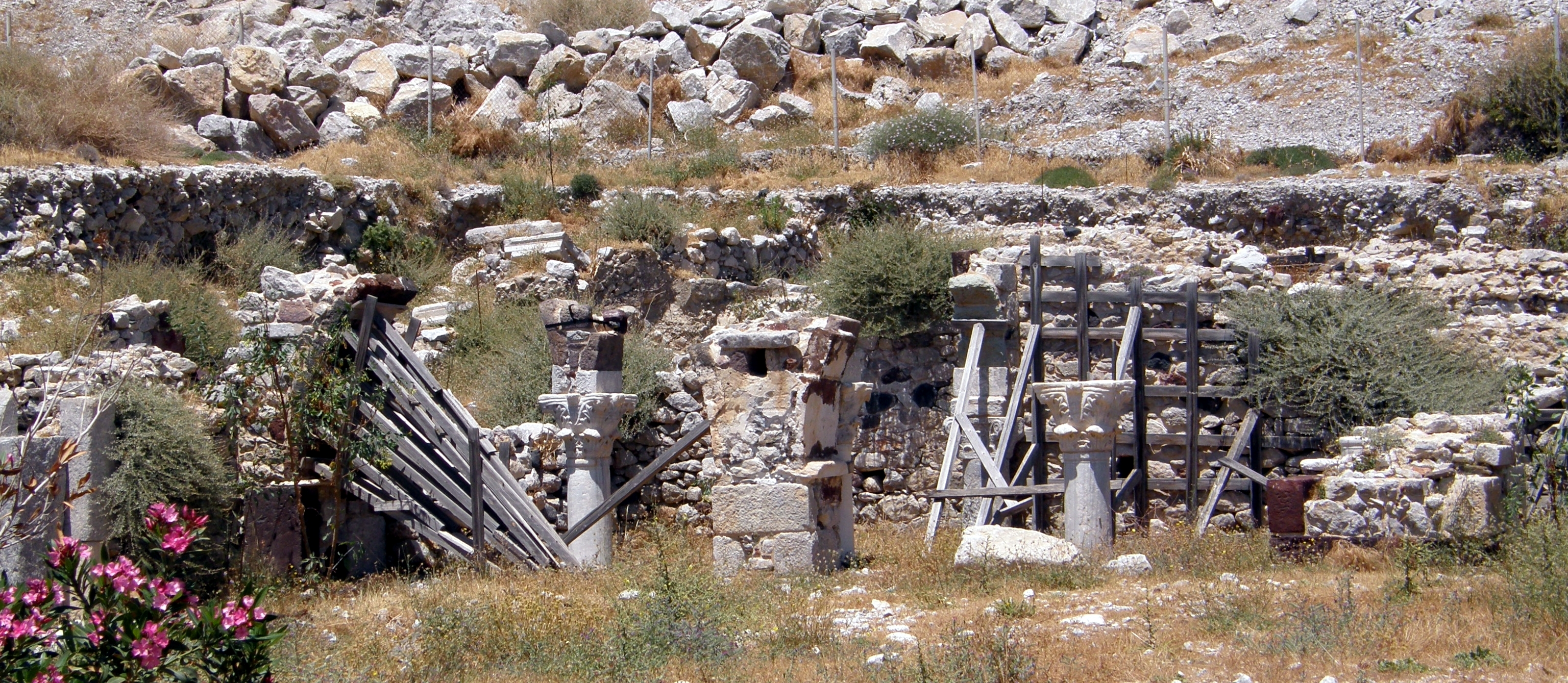 The ruins of the Early Christian church of Saint Irina in Perissa of Santorini. The reason why the island is called "Santorini" Santa Irene, Santorini, and Iconolatry